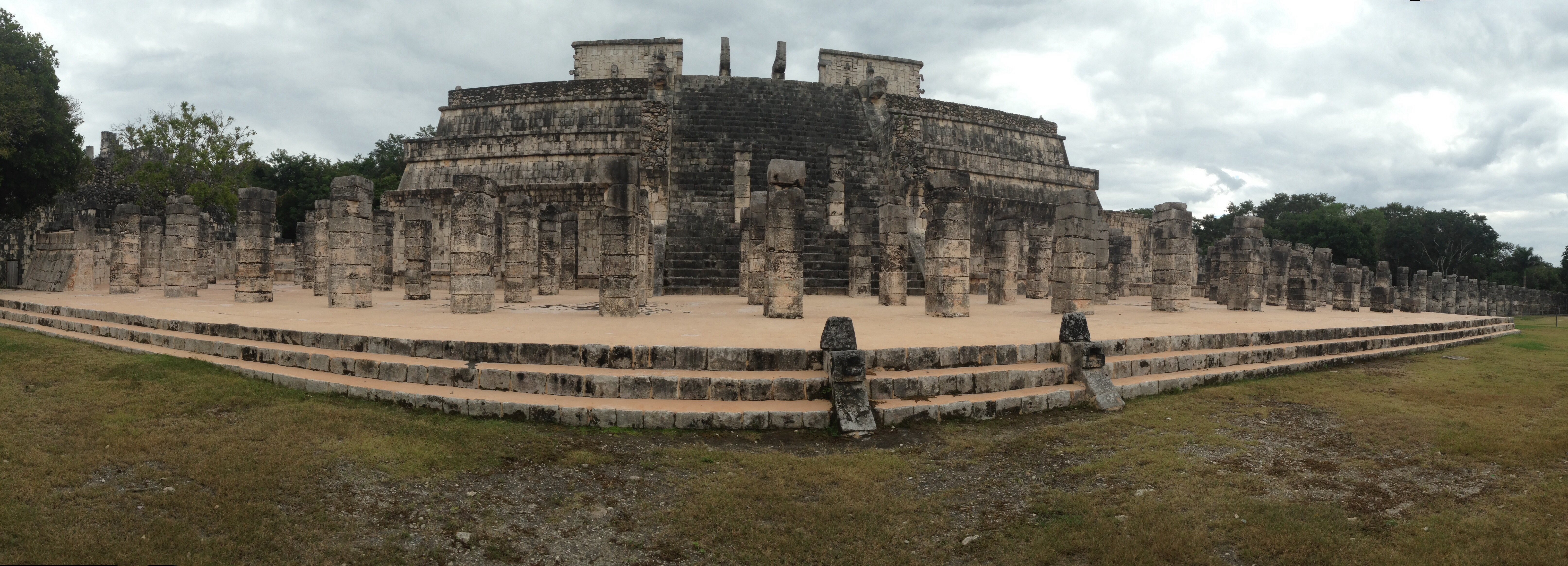 Photo taken in Chichén Itzà in December 2014